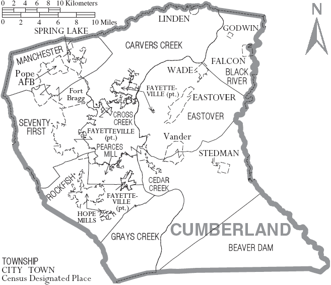 Map of Cumberland County, North Carolina, United States with township and municipal boundaries